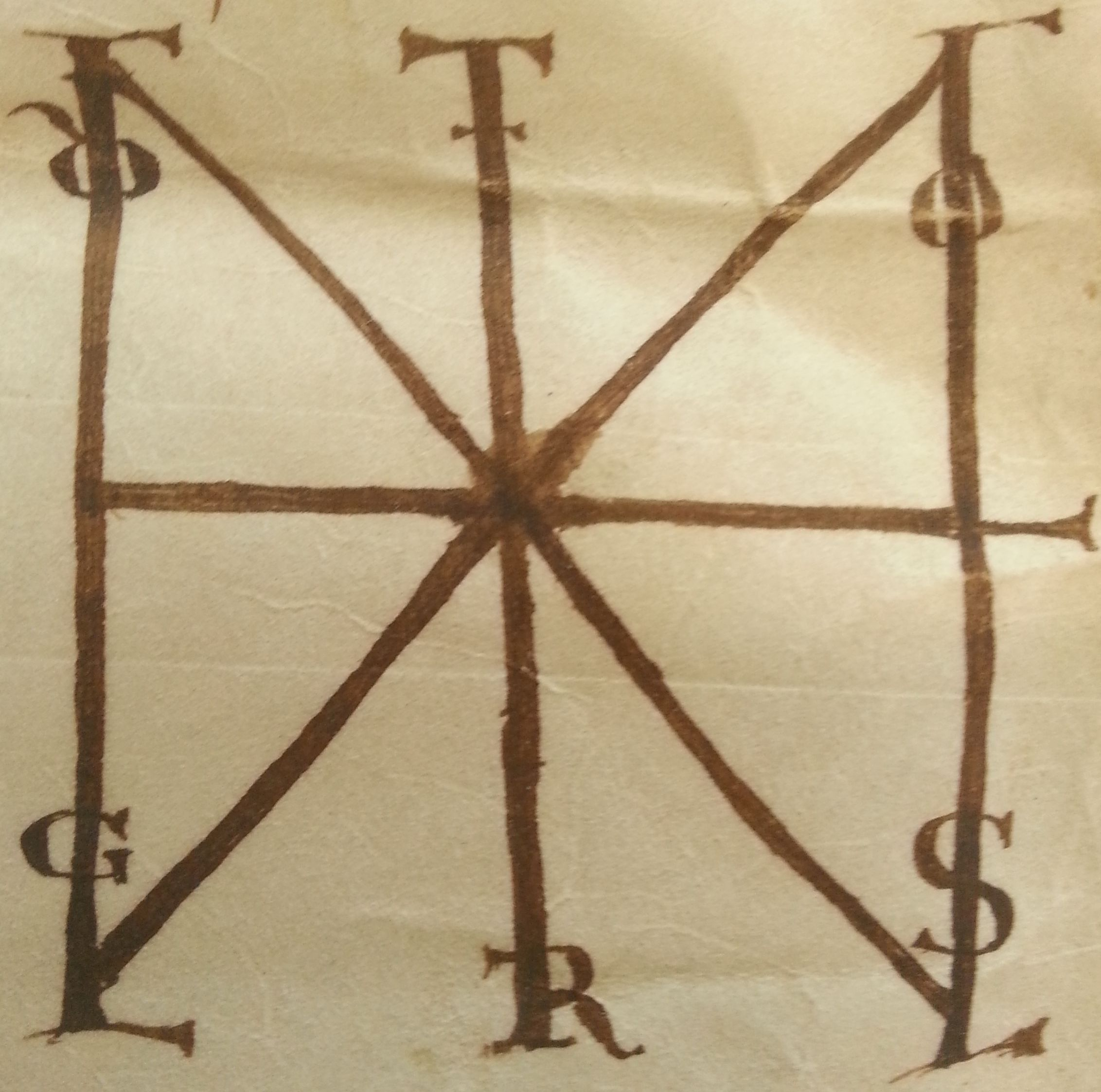 Signum manus of Henry III, Holy Roman Emperor, on a charter from 2 February 1044